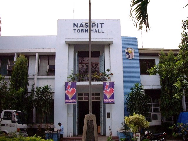 The Town Hall of Nasipit, Agusan del Norte